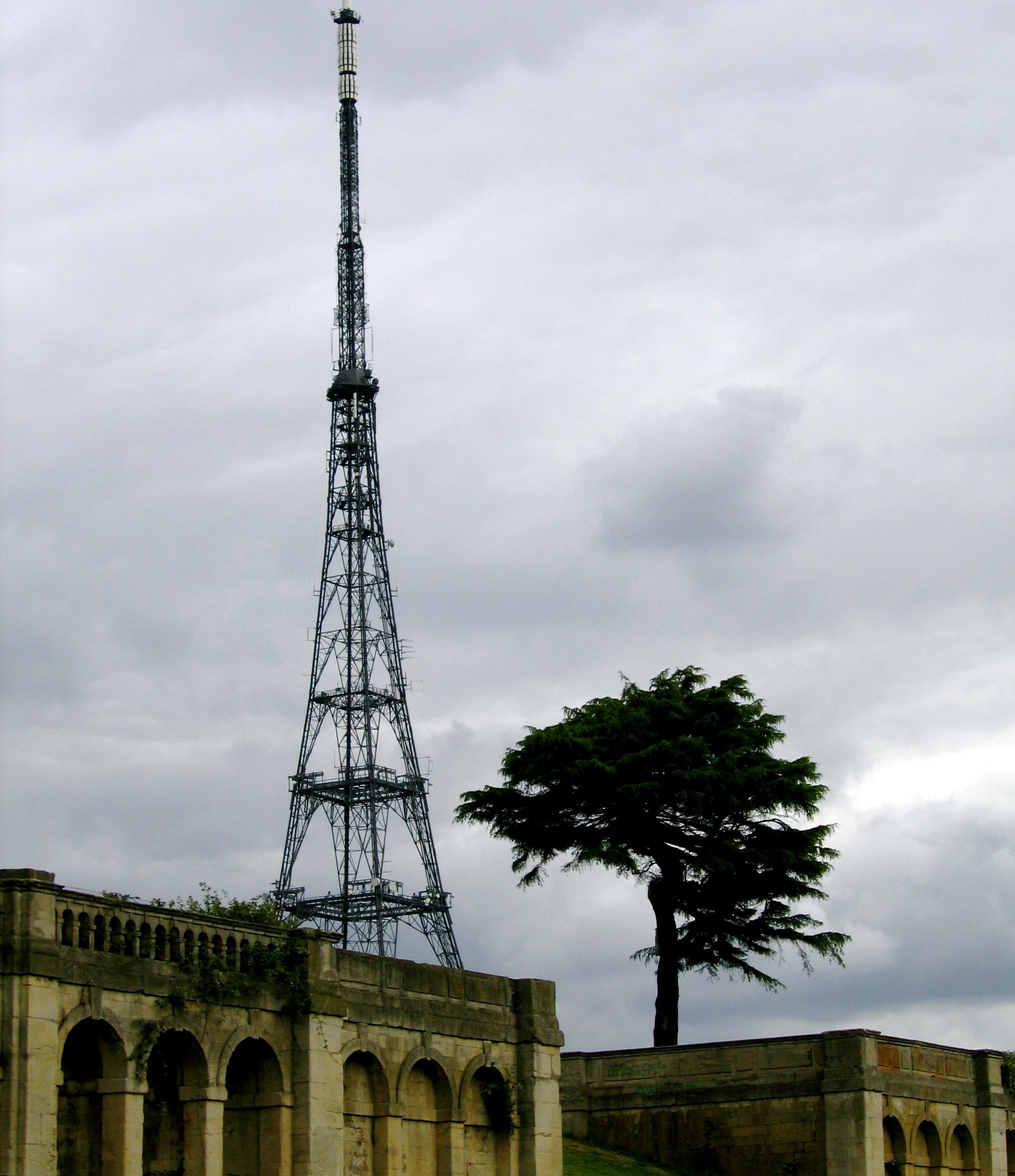 Crystal Palace Transmitter.